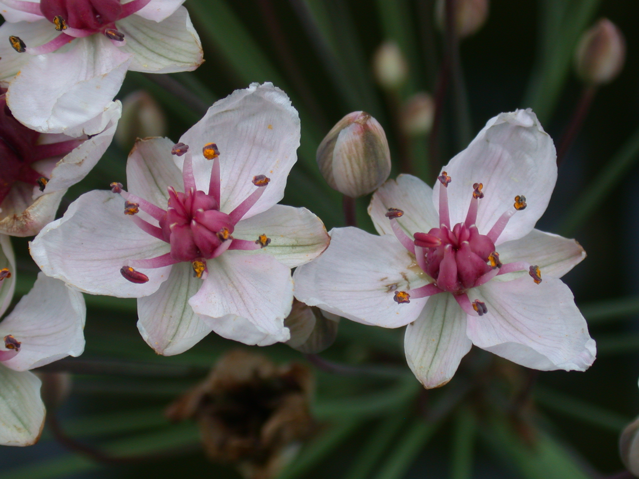 Butomus umbellatus (Butomaceae), Botanical Garden Bern, Switzerland